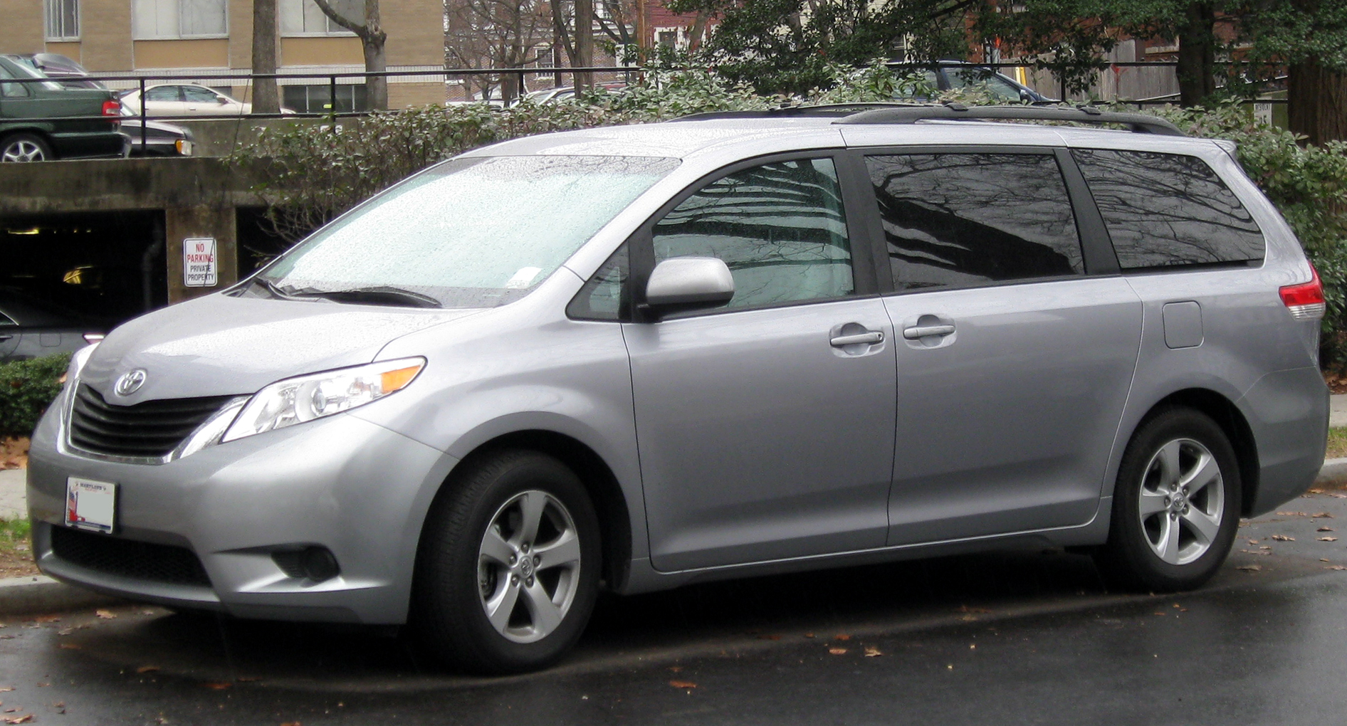 2011-2012 Toyota Sienna photographed in Washington, D.C., USA.